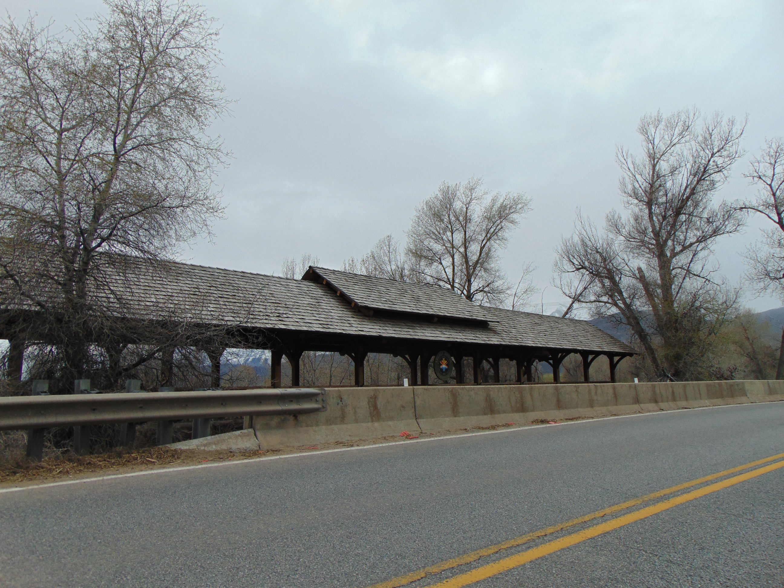 Looking southwest across Utah State Route 113 at the Legacy Bridge over the Provo River in Wasatch County, Utah, April 2016